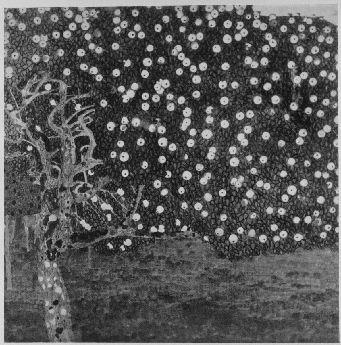 Goldener Apfelbaum